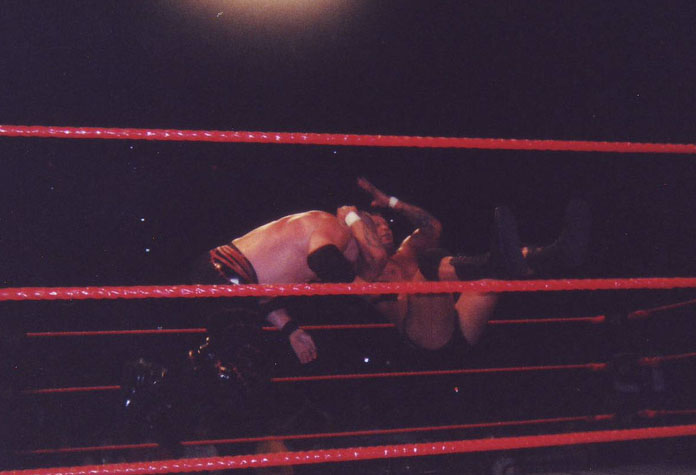 Randy Orton doing his RKO finisher to Kane.